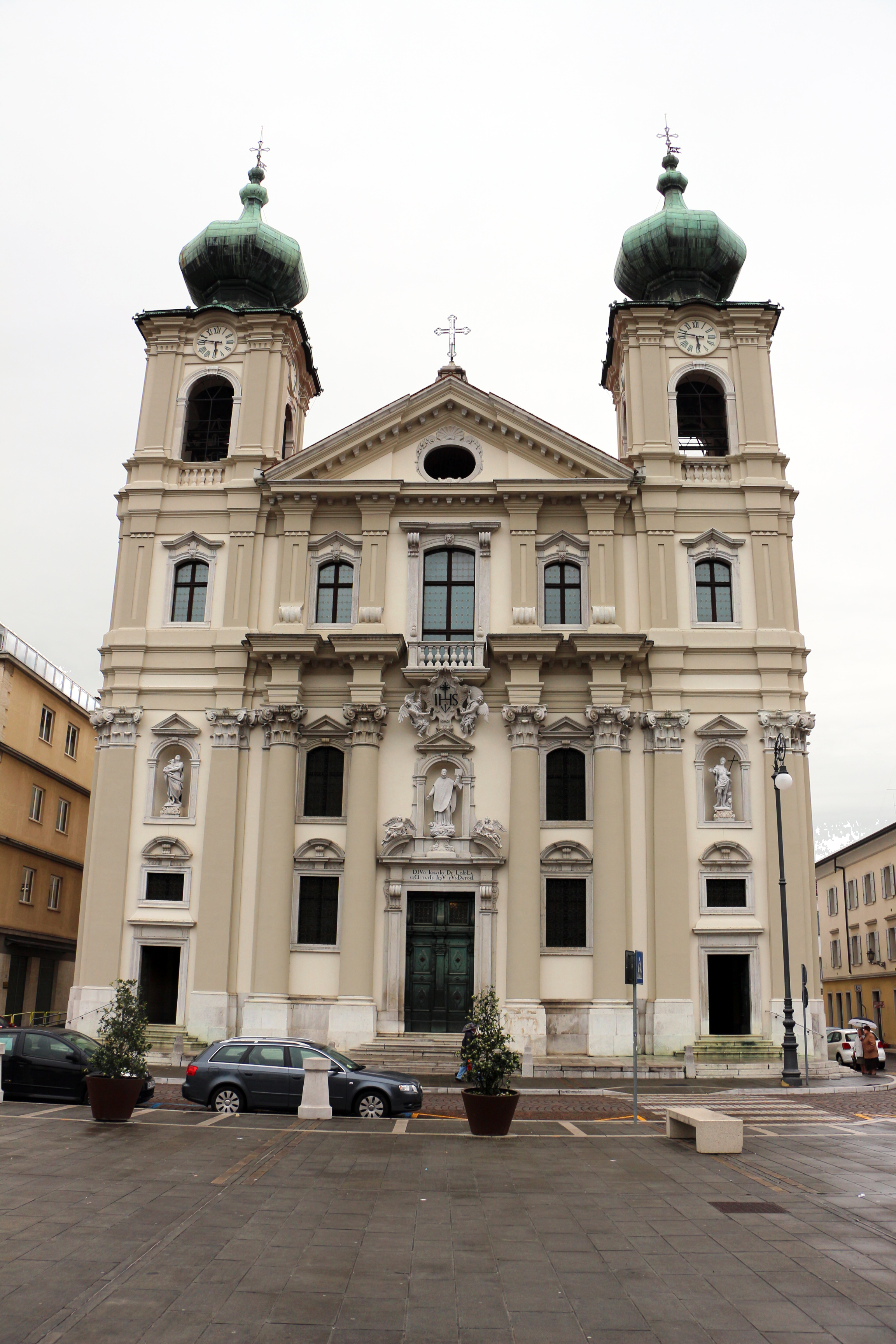 Gorizia